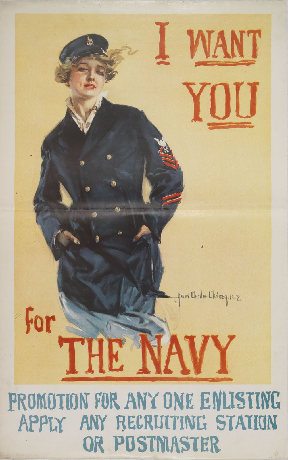 World War I-era poster depicts woman casually dressed in a naval uniform. Poster is described as "promotion for anyone enlisting/ apply any recruiting station or postmaster." Artist: Howard Chandler Christy, ca. 1917 Accession Number: P.2284.192